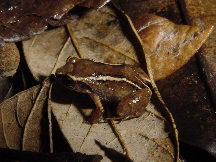 Eleutherodactylus intermedius